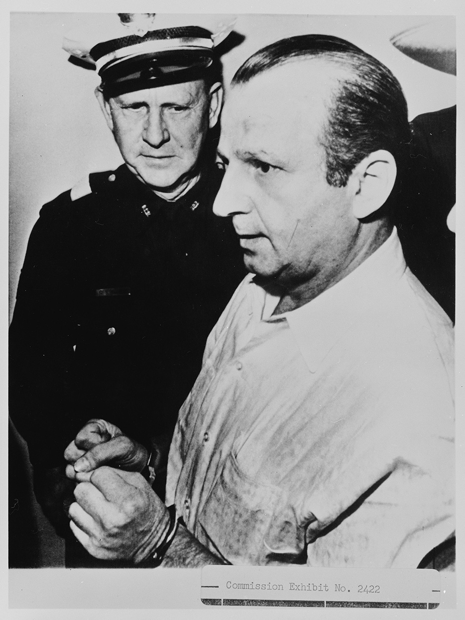 Jack Ruby after his arrest on November 24, 1963